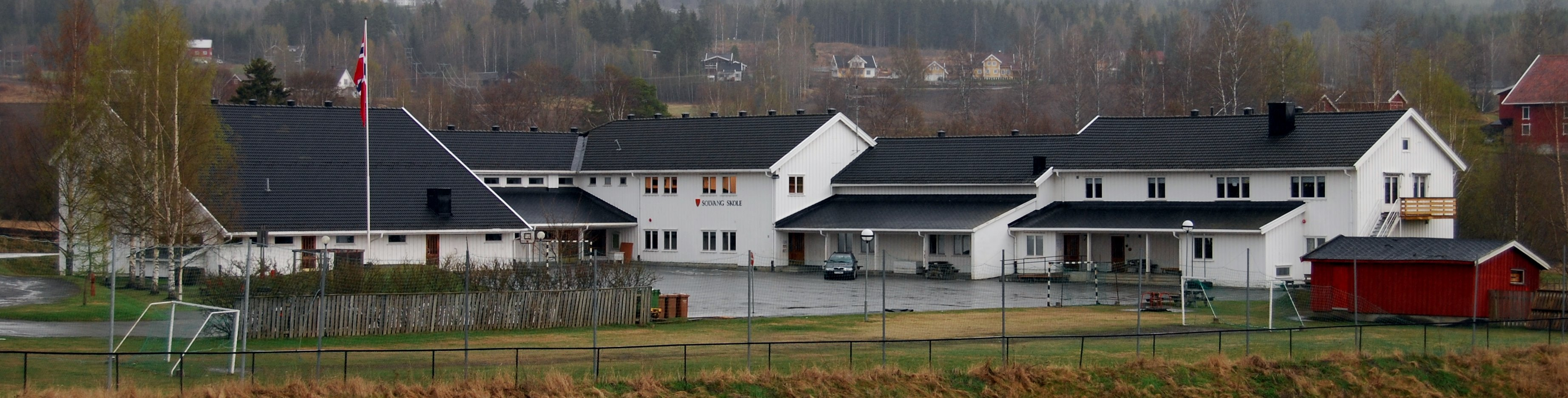 Solvang school, Gran, Oppland, Norway.